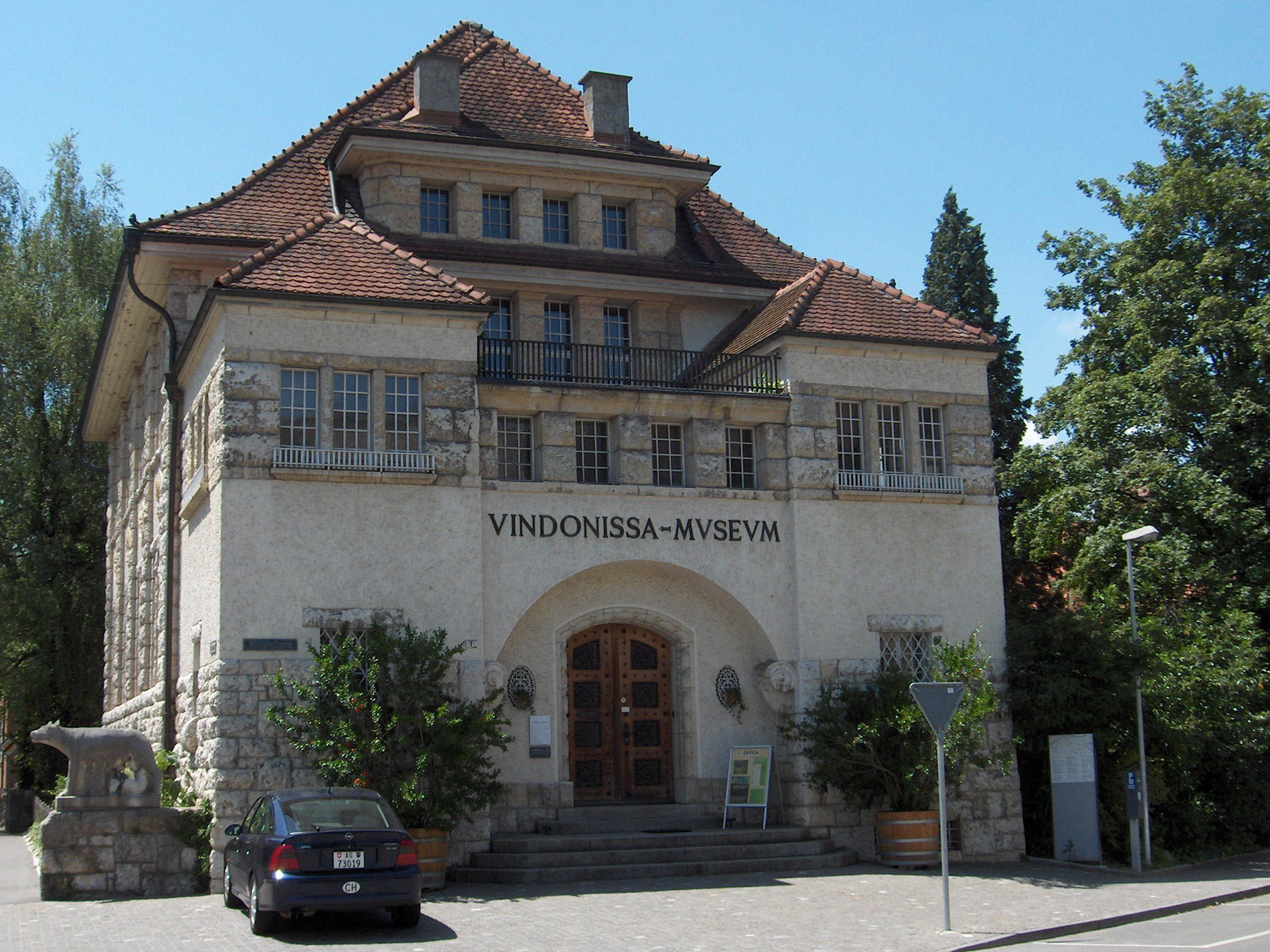 Brugg: Vindonissa Museum, exhibition of artifacts from the nearby Roman legion camp Photo taken by Voyager, 28 June 2006